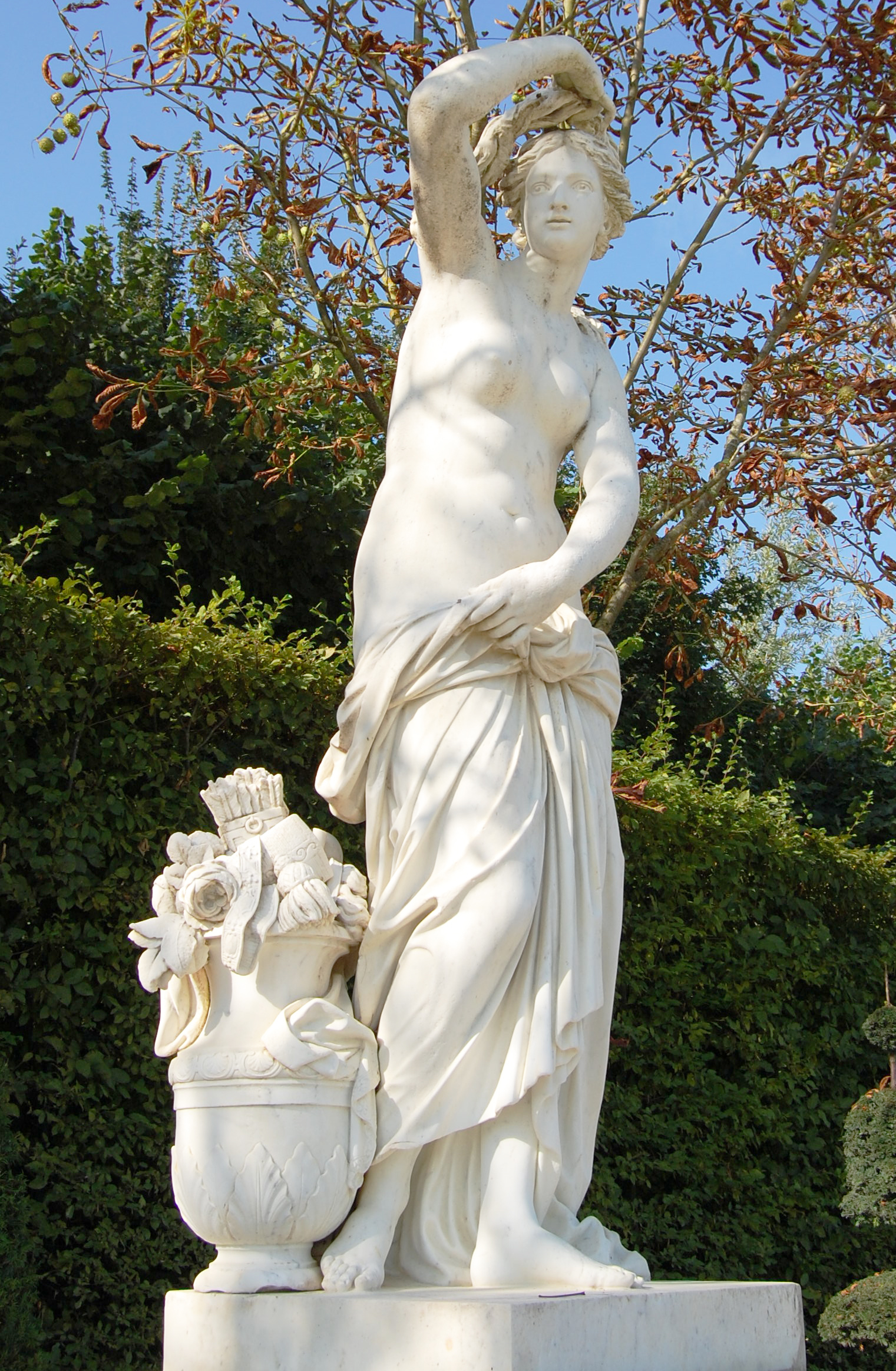 Vénus sortant de l'onde dite Vénus Richelieu (1685-1689) par Pierre Le Gros (1629-1714).